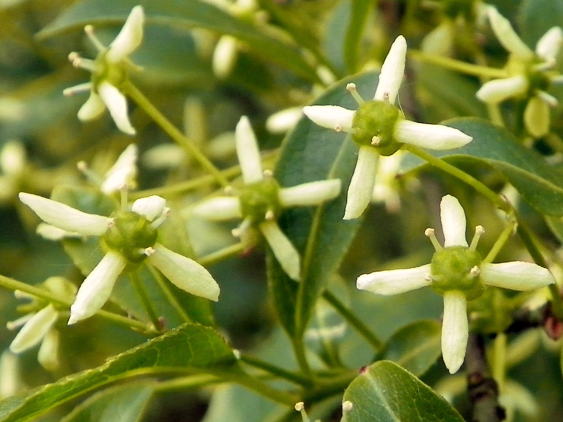 Spindle (Euonymus europaeus), Millennium Wood, Fairlands Valley Park, Stevenage, Hertfordshire, 5 May 2011.